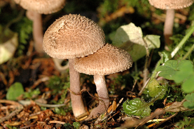 Inocybe lanuginosa from Commanster, Belgium. If you think this is a different taxon, please contact James Lindsey.